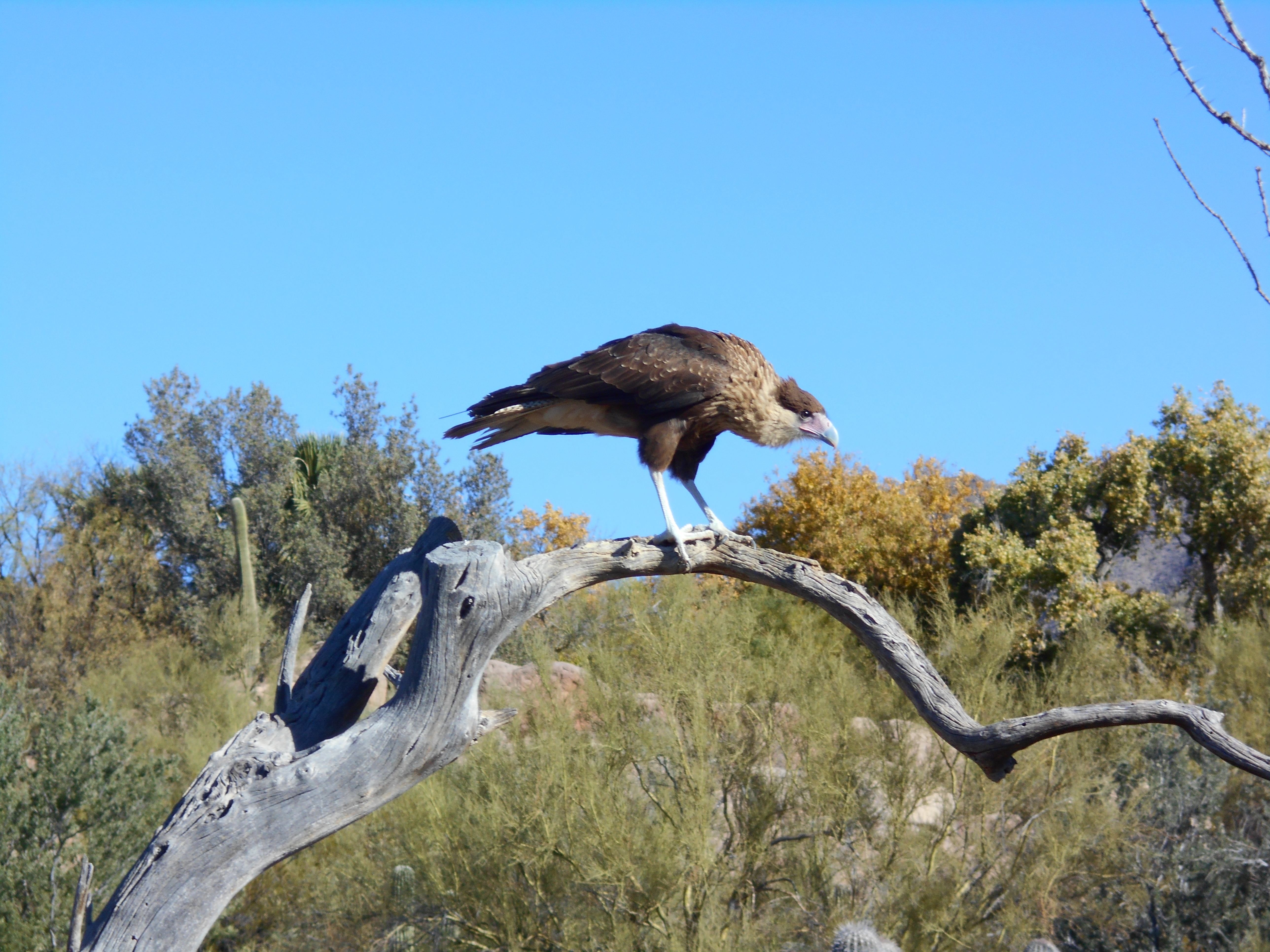 A young Caracara cheriway in the Arizona-Sonora Desert Museum